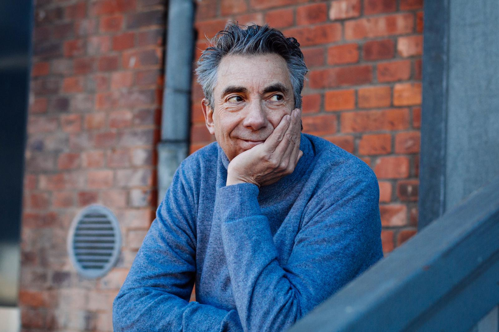 Michael Benthin